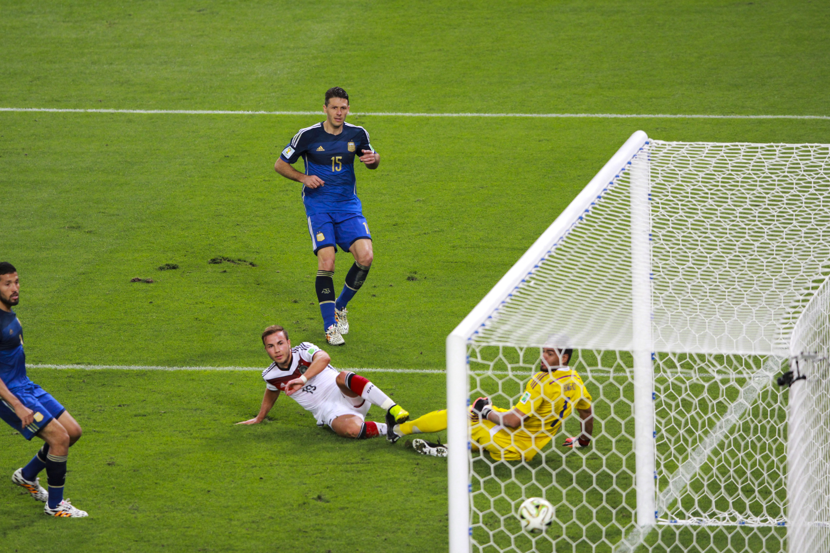 Götze scores decisive extra time strike, earns Germany fourth World Cup title at the FIFA World Cup 2014.